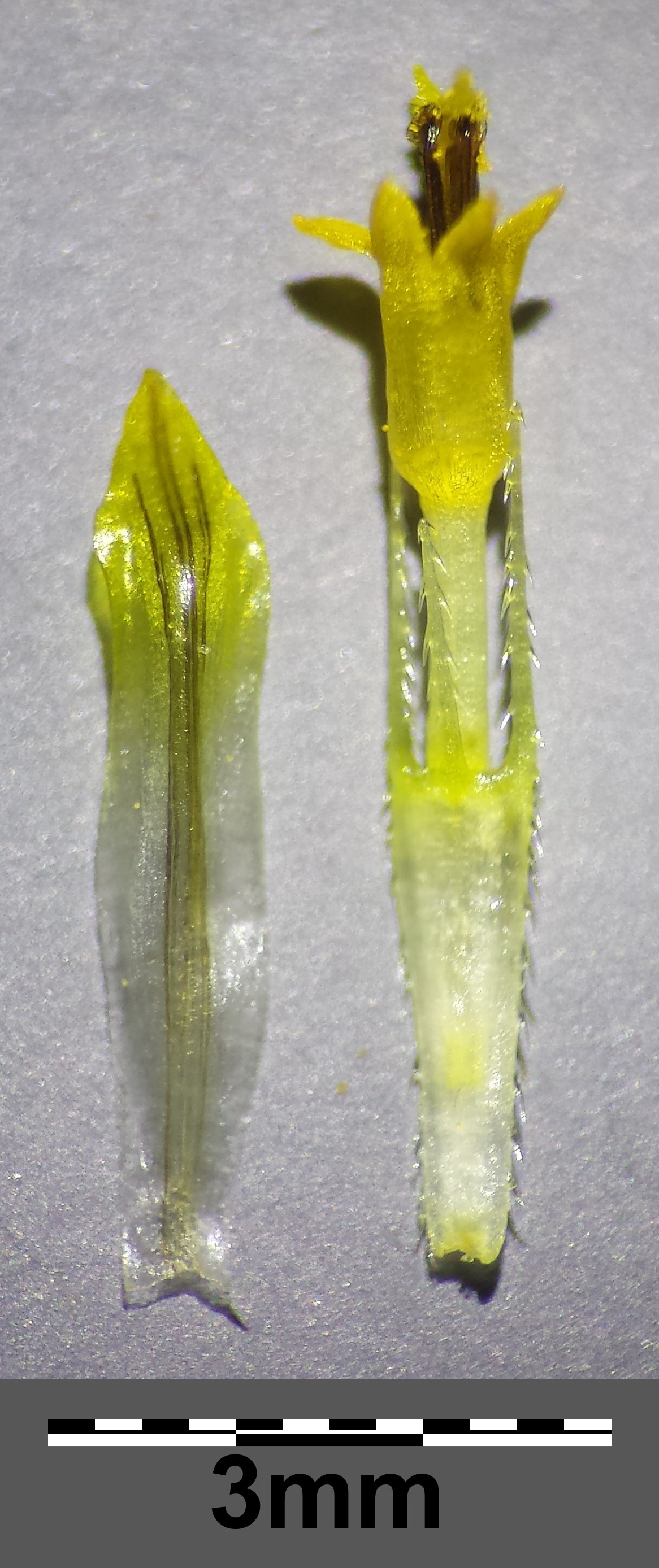 Bract and disc floret Taxonym: Bidens cernua ss Fischer et al. EfÖLS 2008 ISBN 978-3-85474-187-9 Location: Žárský rybník, Jihočeský kraj, Czech Republic - ca. 500 m a.s.l. Habitat: shore of a pond